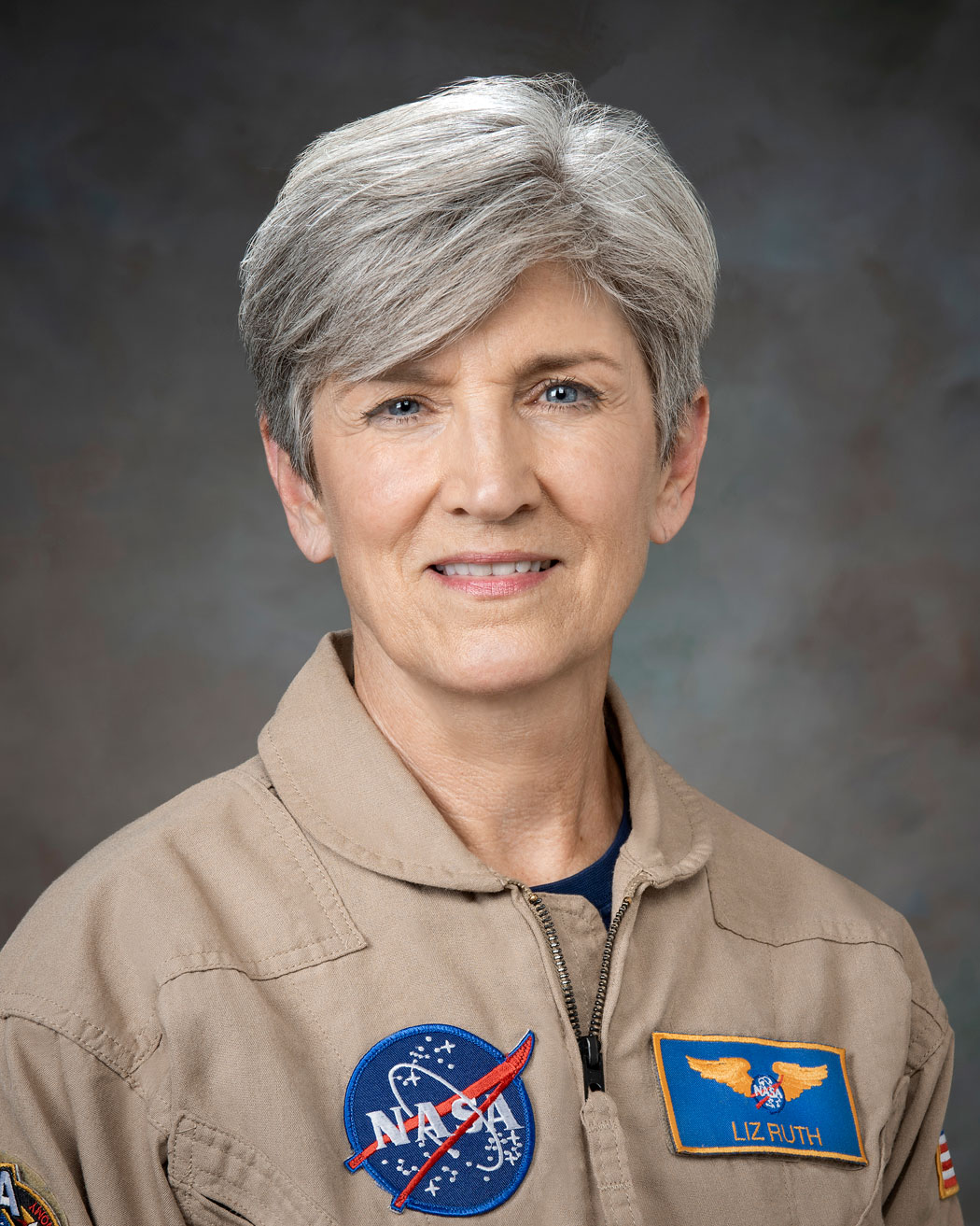 Elizabeth “Liz” Ruth is a research pilot at NASA's Armstrong Flight Research Center in Edwards, California for the Stratospheric Observatory for Infrared Astronomy (SOFIA), a modified Boeing 747SP with the world's largest airborne astronomical observatory.